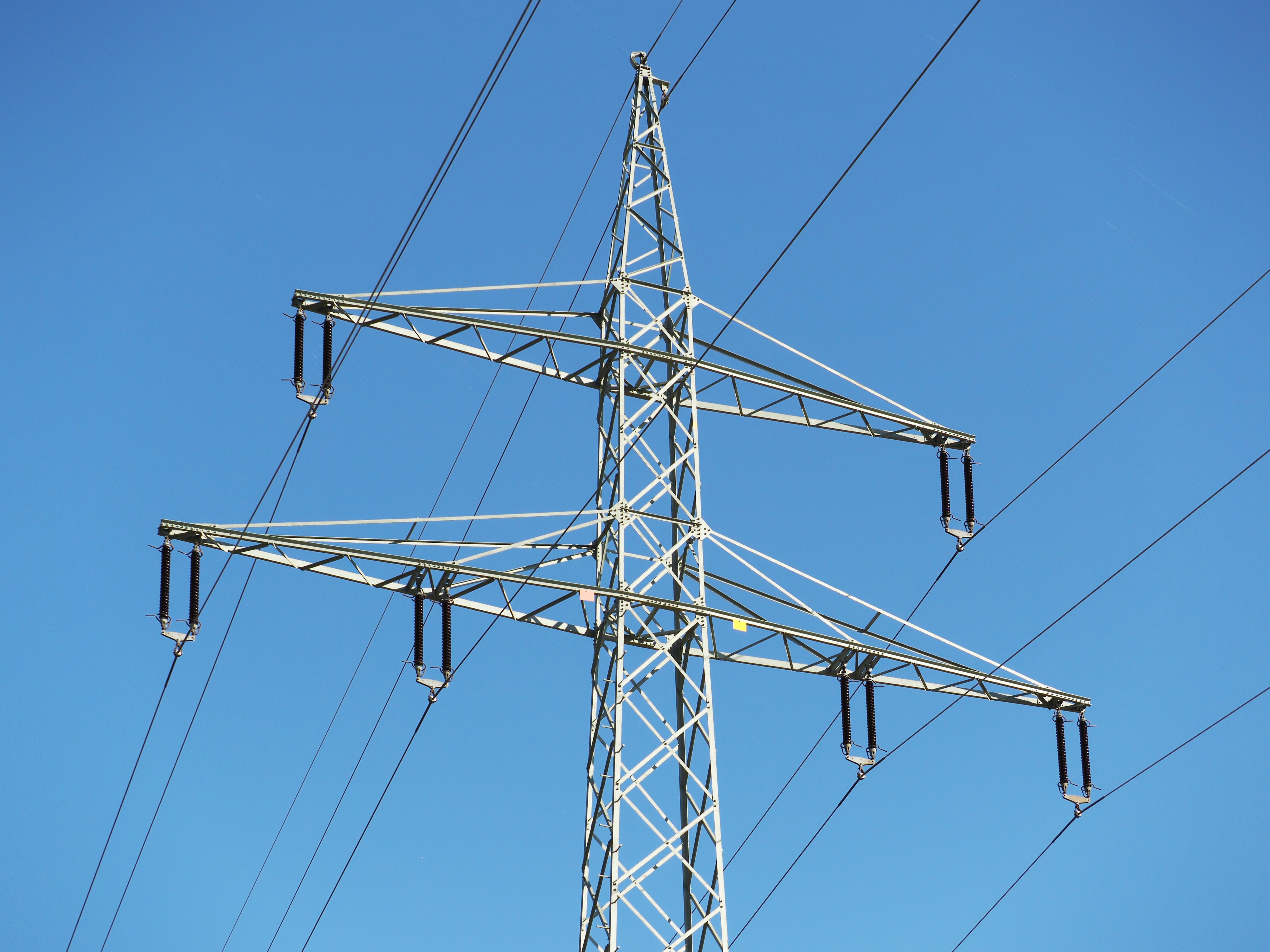 Top of a "Donau" type electricity pylon (2 circuits, 110 kV) near Pfahlbronn, Germany